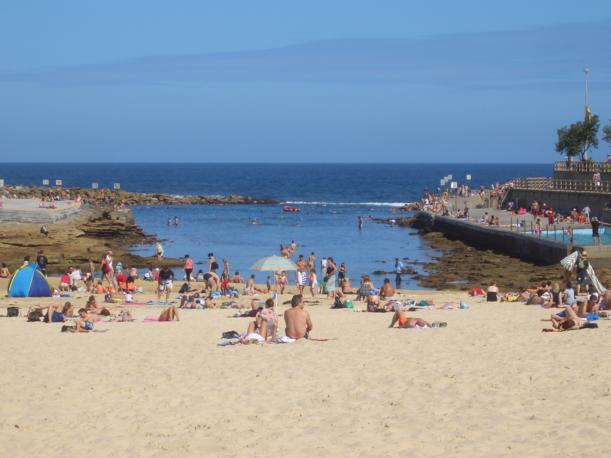 Clovelly Beach